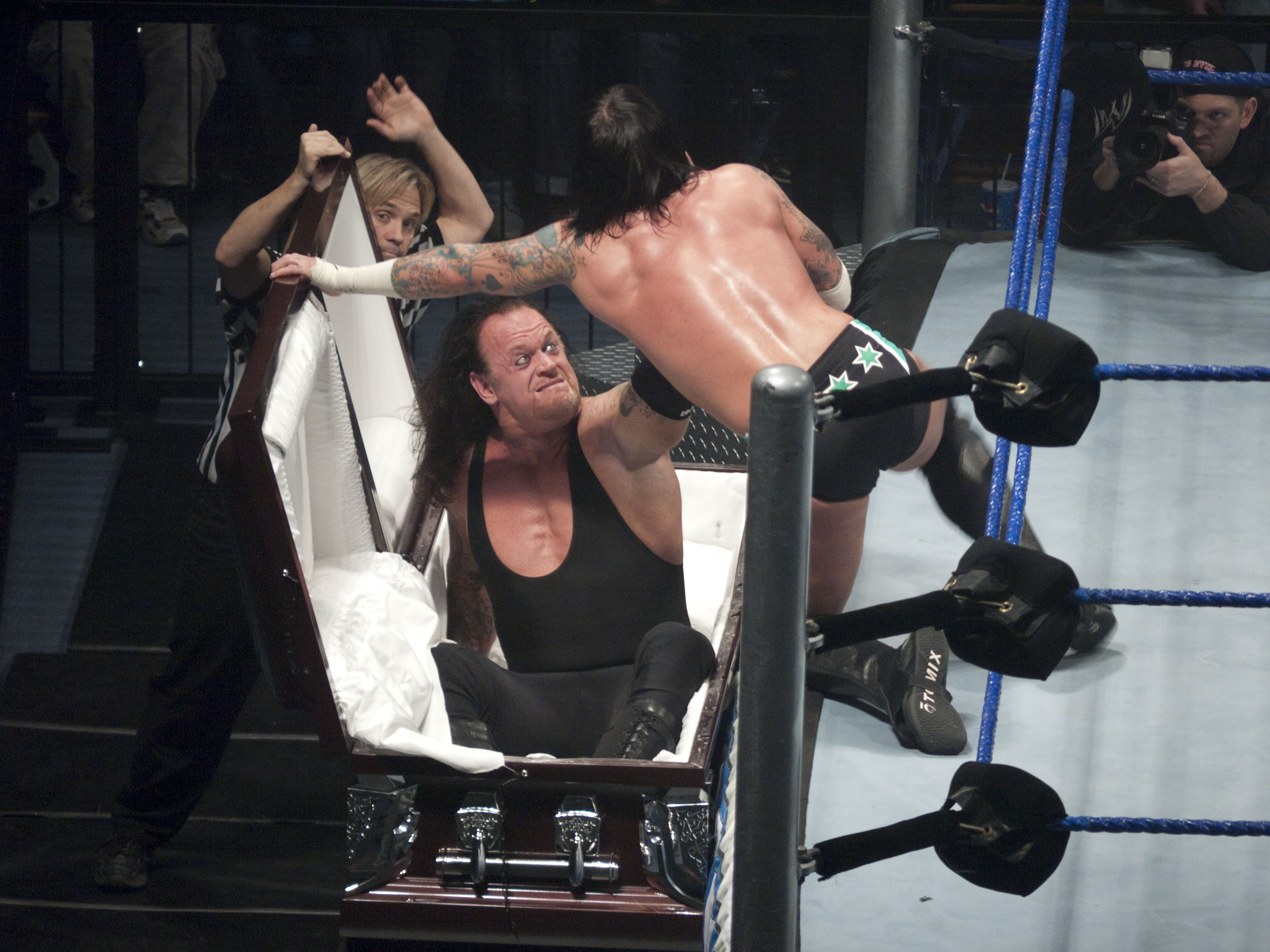 C.M. Punk shocked by the Undertaker when he tries to close the casket to win World HeavyWeight Championship.